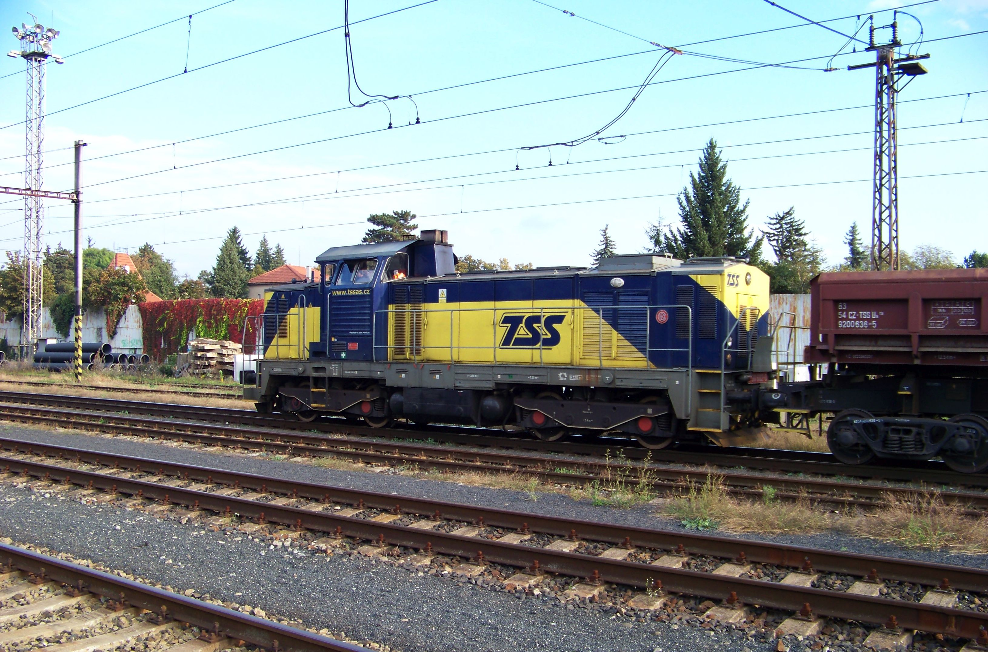 Prague-Krč, Czech Republic. Train station Praha-Krč, a work train of TSS.